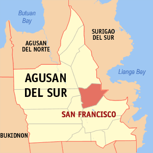 Map of the Agusan del Sur showing the location of San Francisco